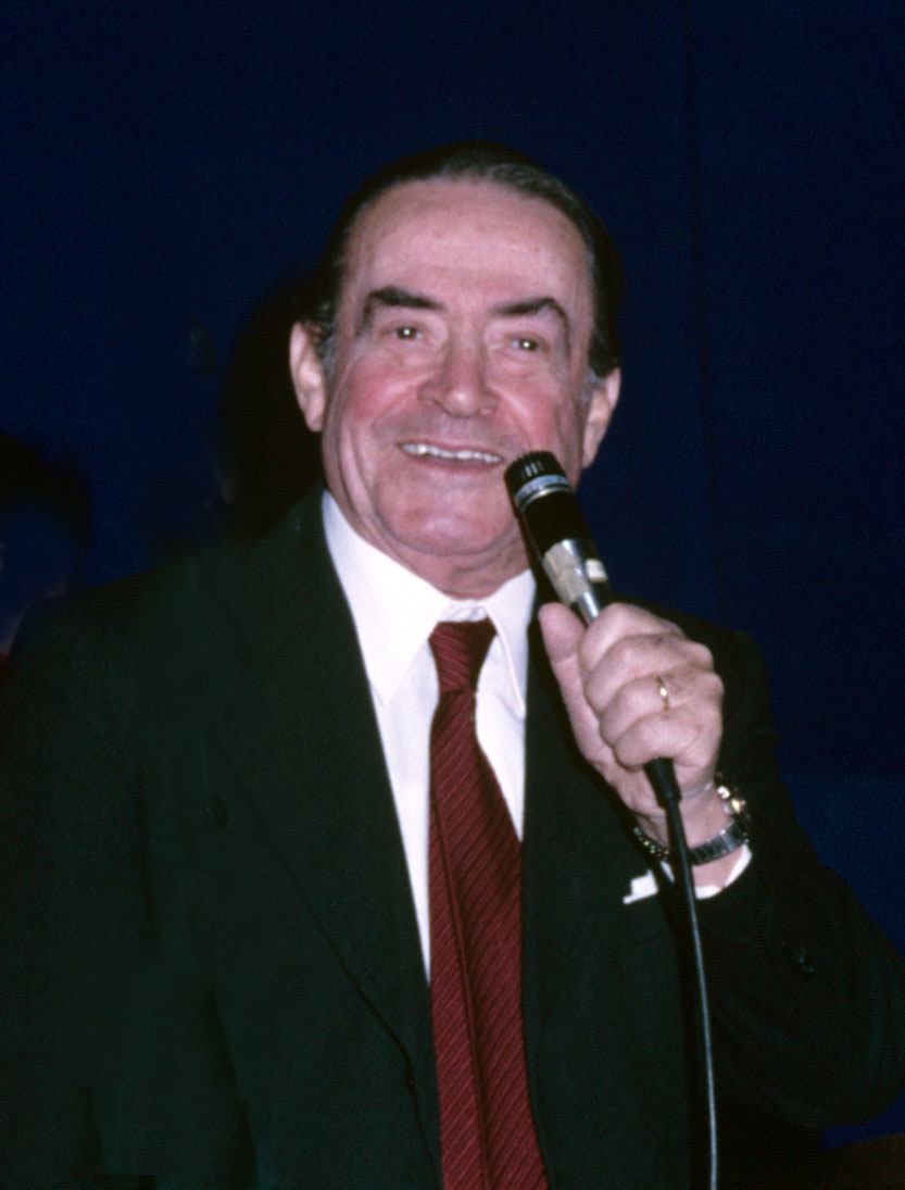 photo by the author Indeciso42